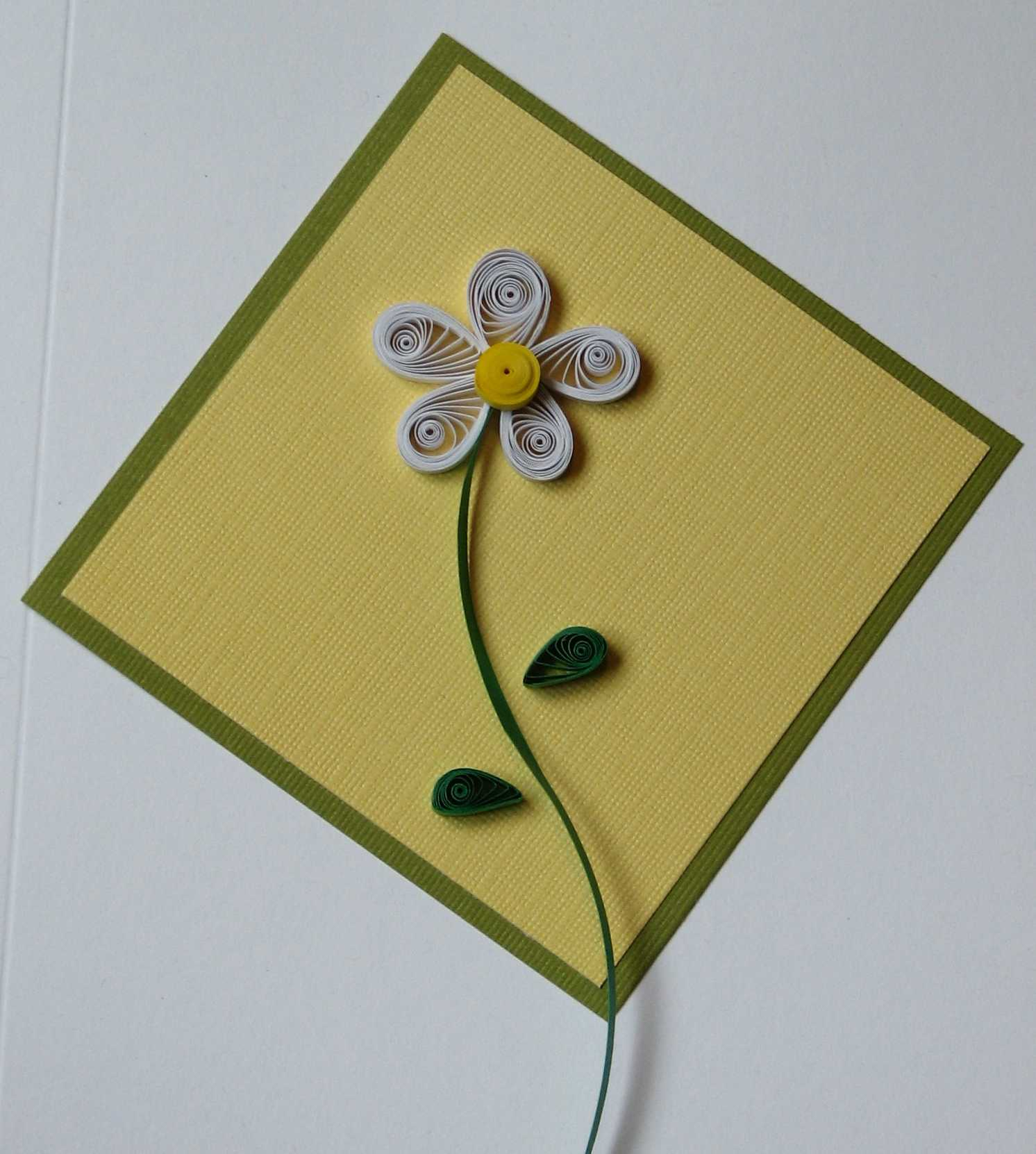 Antonella DeFalco, sample Quilling Picture - Daisy Card